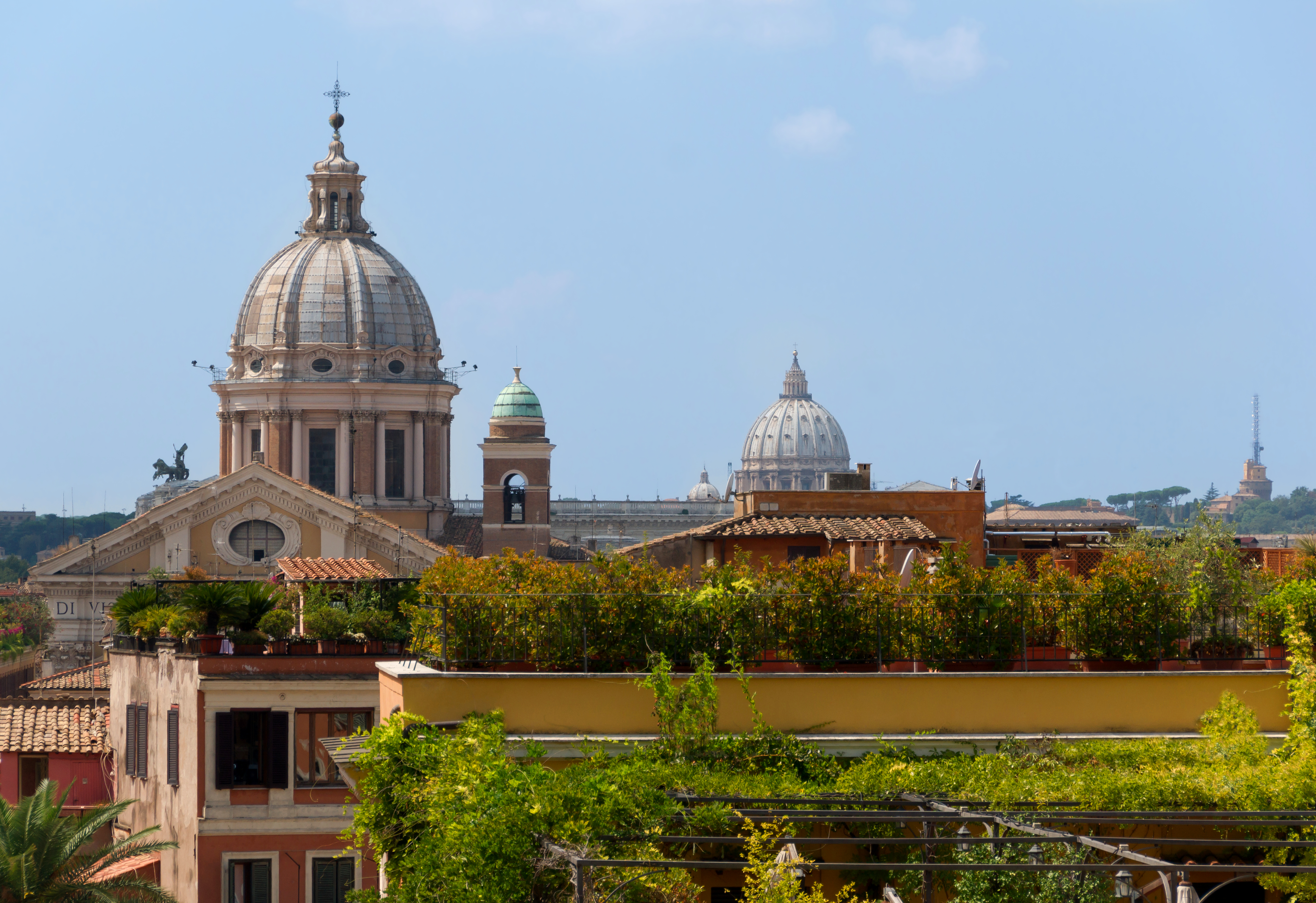 Above the City, from Santa Trinita-dei-Monti. The domes of church San Carlo al Corso, and Saint Peter's Basilica. Rome, Italy.